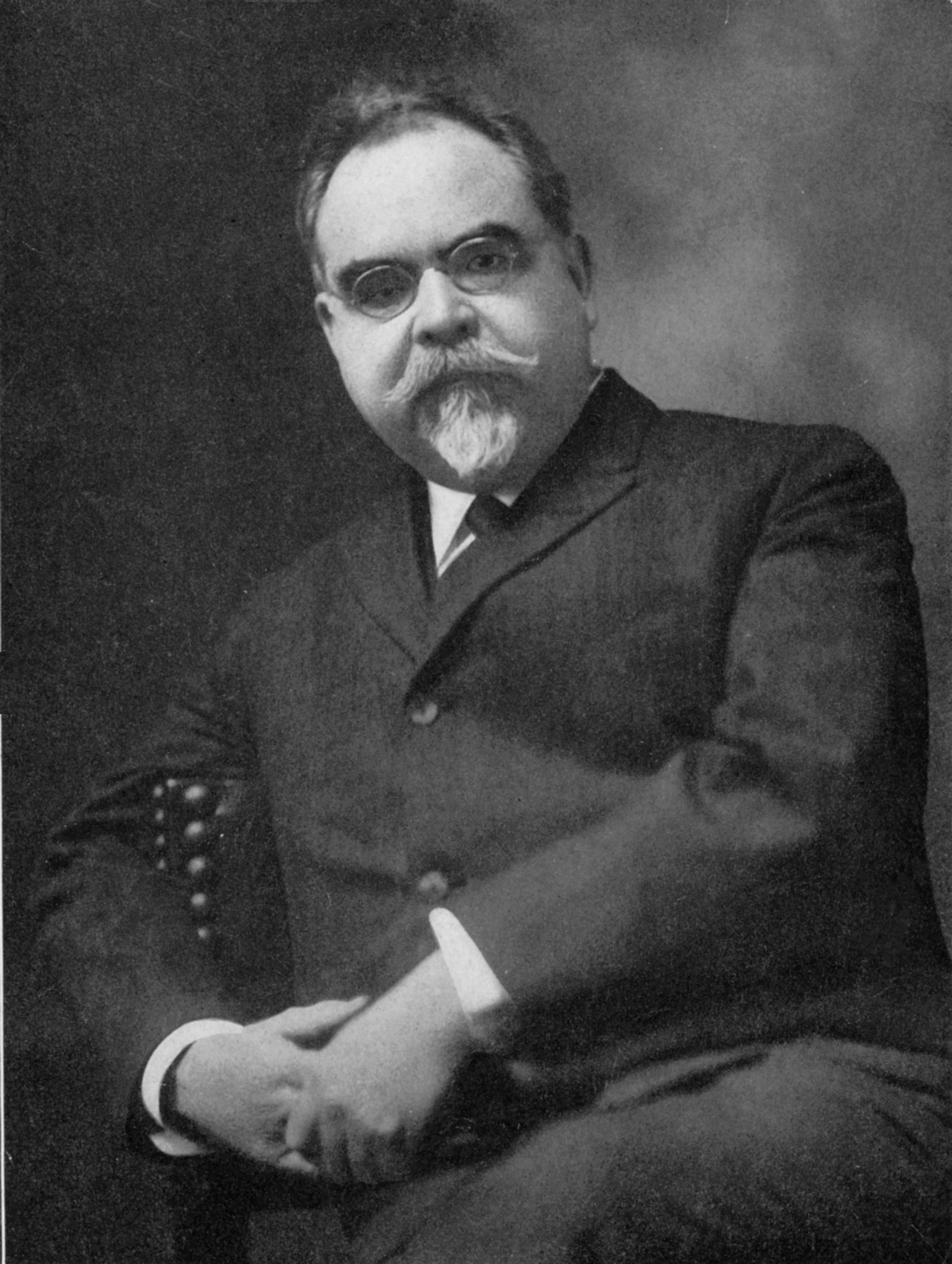 Photoportrait of Rudolph Matas. Father of Modern Vascular Medicine - Tulane University School of Medicine